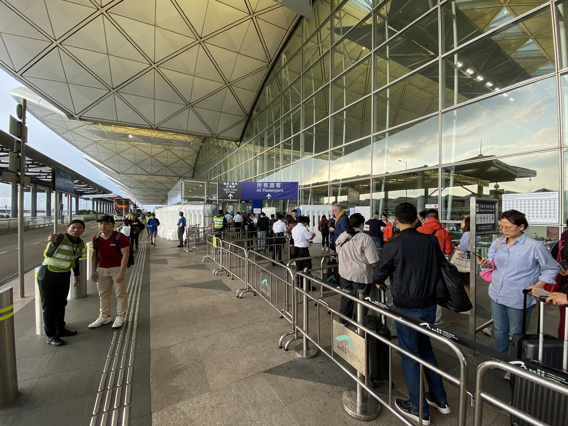 HKIA security measures in Interim injunction